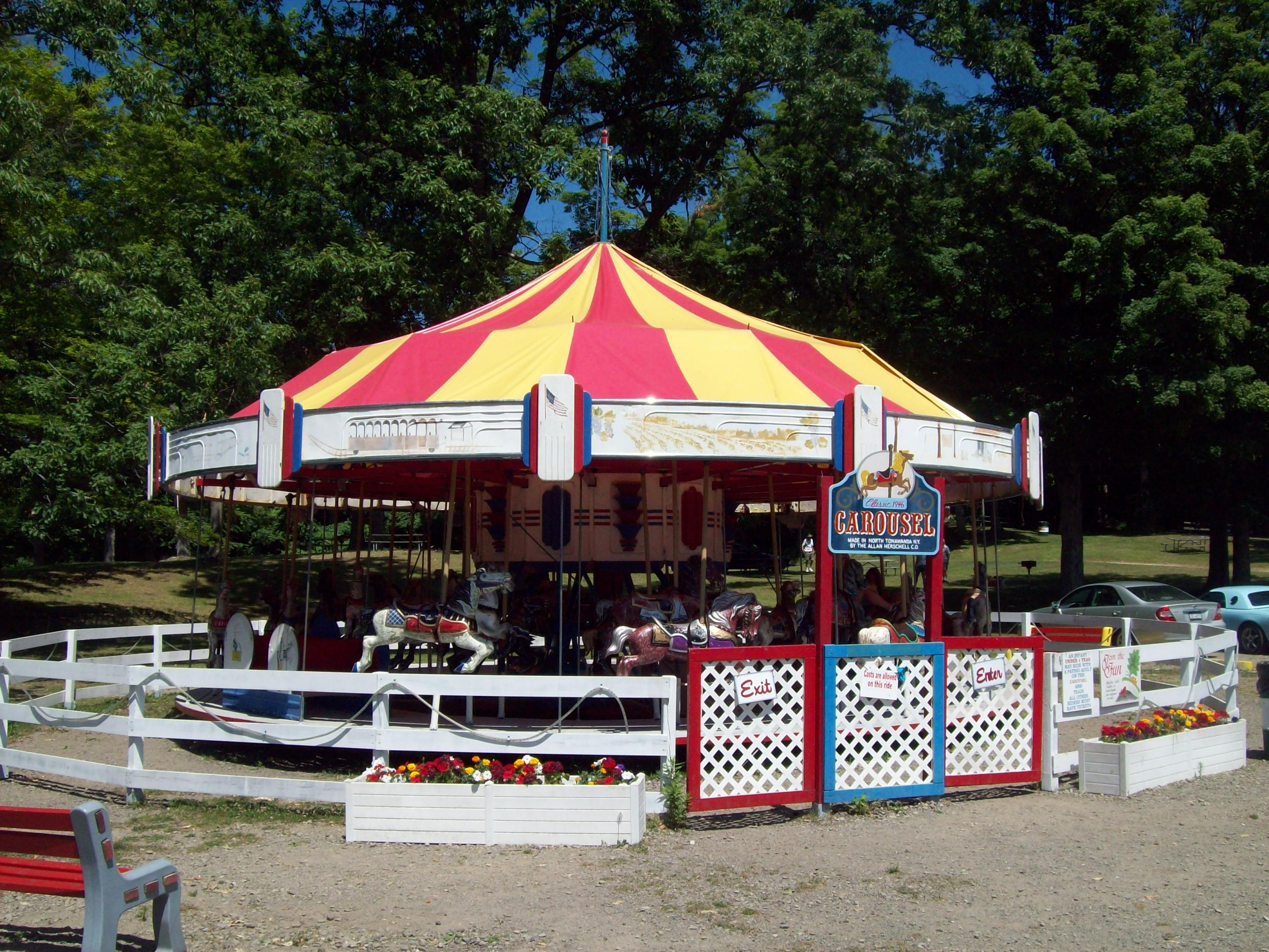 Carousel (1948) Midway State Park — in Maple Springs, Chautauqua County, New York. July 2012